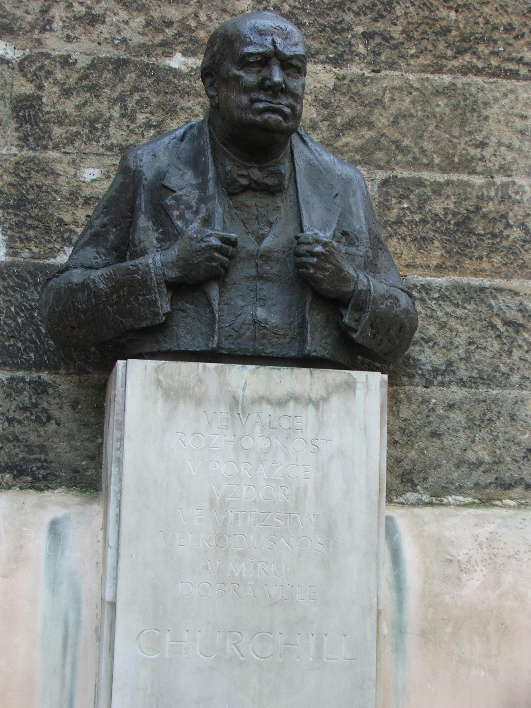 Winston Churchill bust near British Embassy in Prague - Malá Strana, Czechia